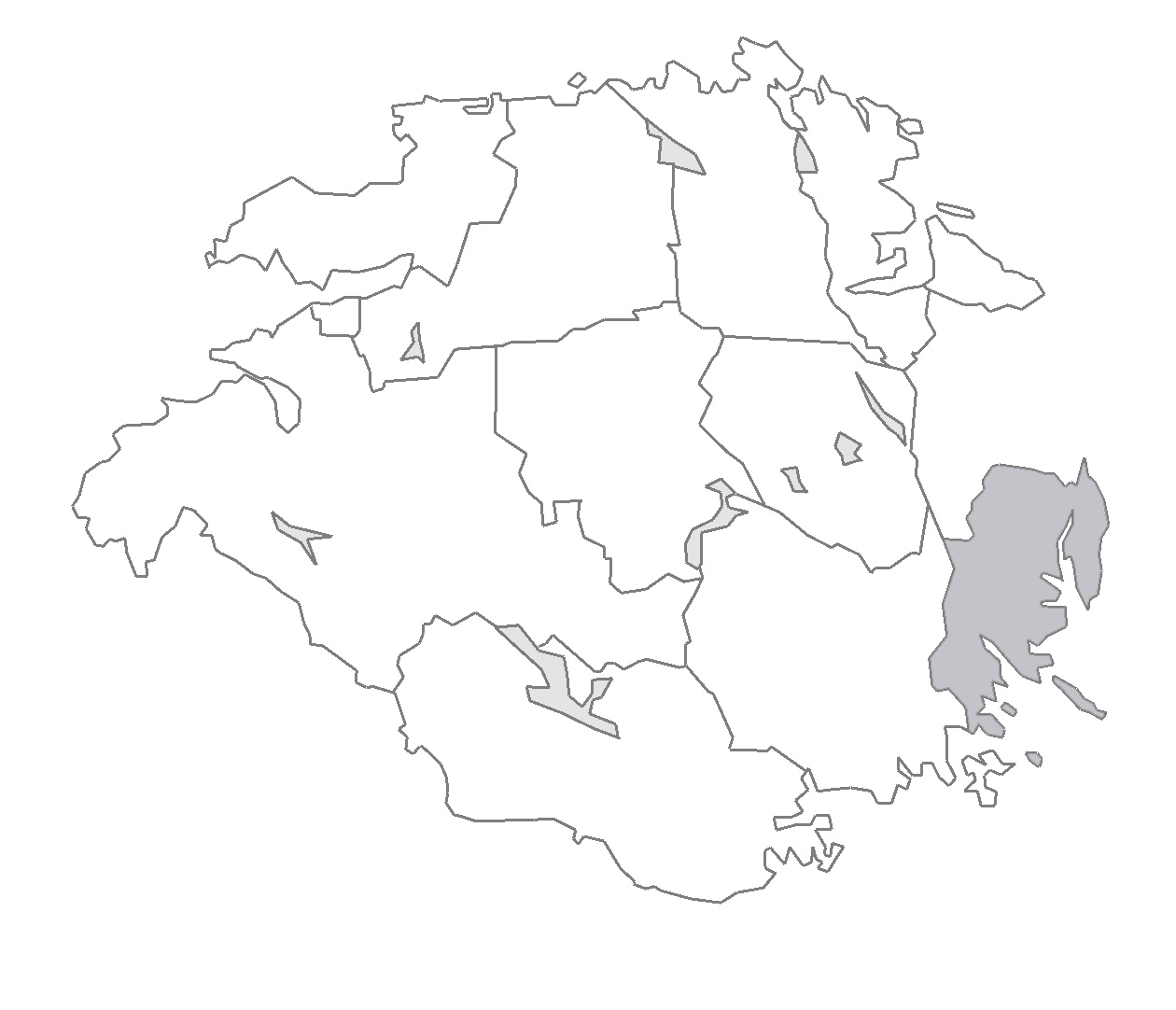 Map describing the location of Hölebo Hundred in Södermanland County, Sweden.